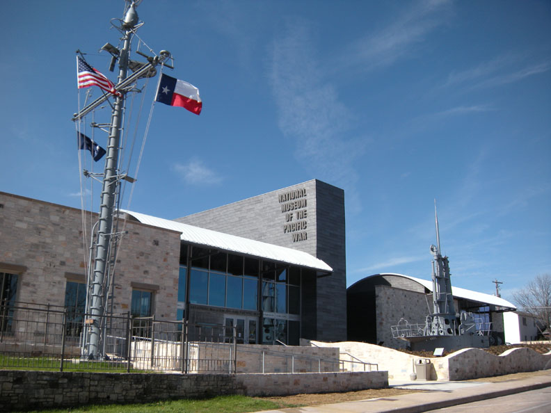 Street view of the Entrance to the National Museum of the Pacific War in Fredericksburg Texas